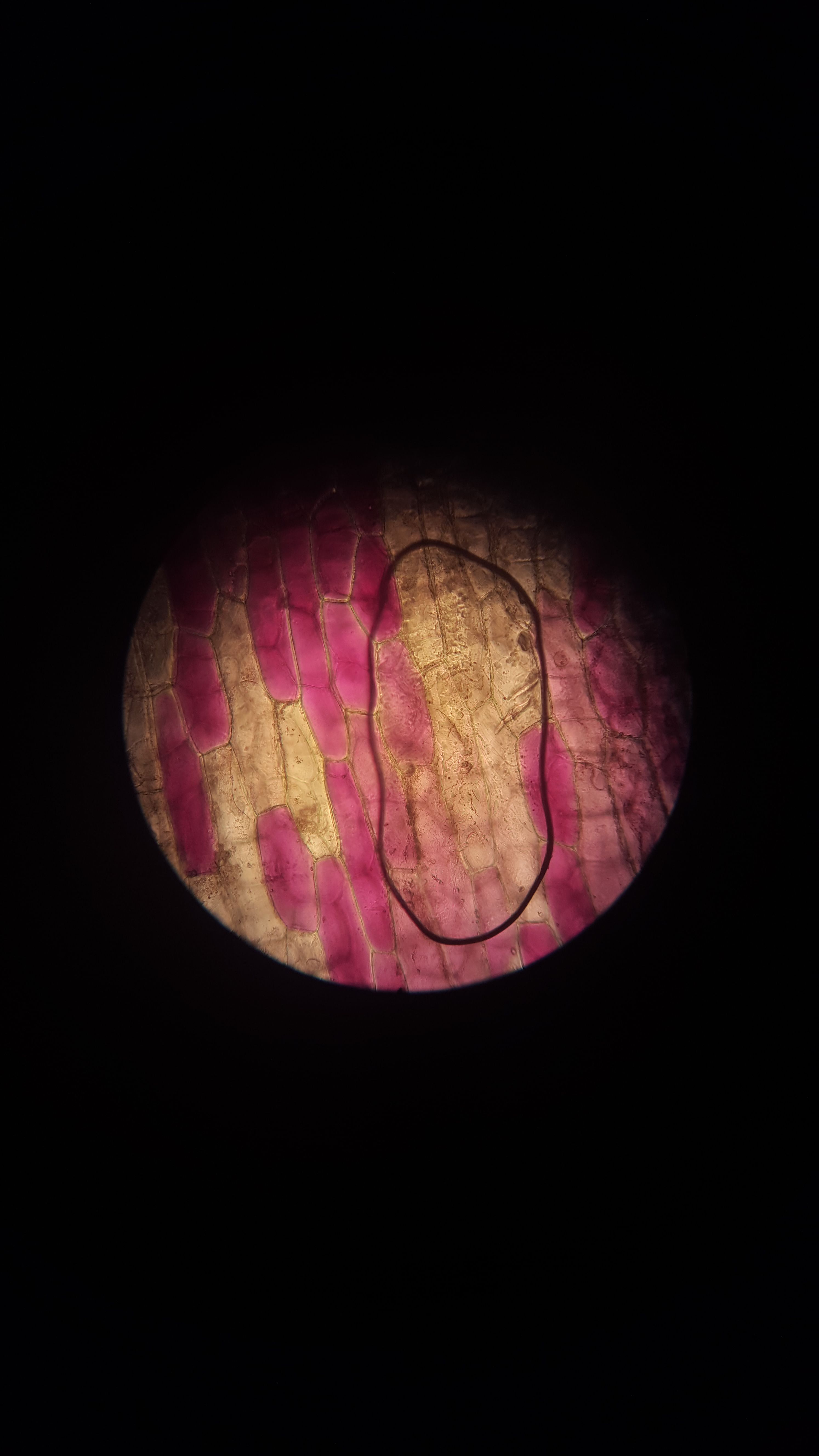 Red onion cells under a microscope.